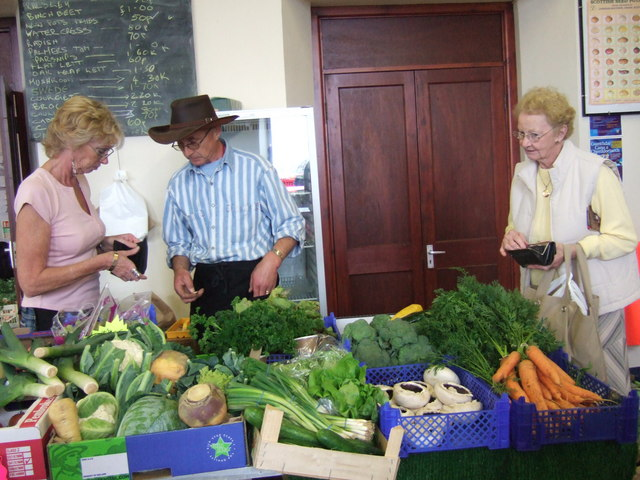 Market stall, Fishguard/Abergwaun. Fishguard's traditional weekly market is the one of the very few to survive as such in the area. Currently (2006) it is located in temporary accommodation while its usual venue in the Town Hall is being refurbished. Friendly stallholders sell a range of products from local fish and meat to Bolivian crafts and fairtrade goods, while customers stop for a chat and share the gossip, in Welsh and English.